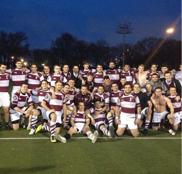 FURFC celebrating together after a match during the 2013 season.